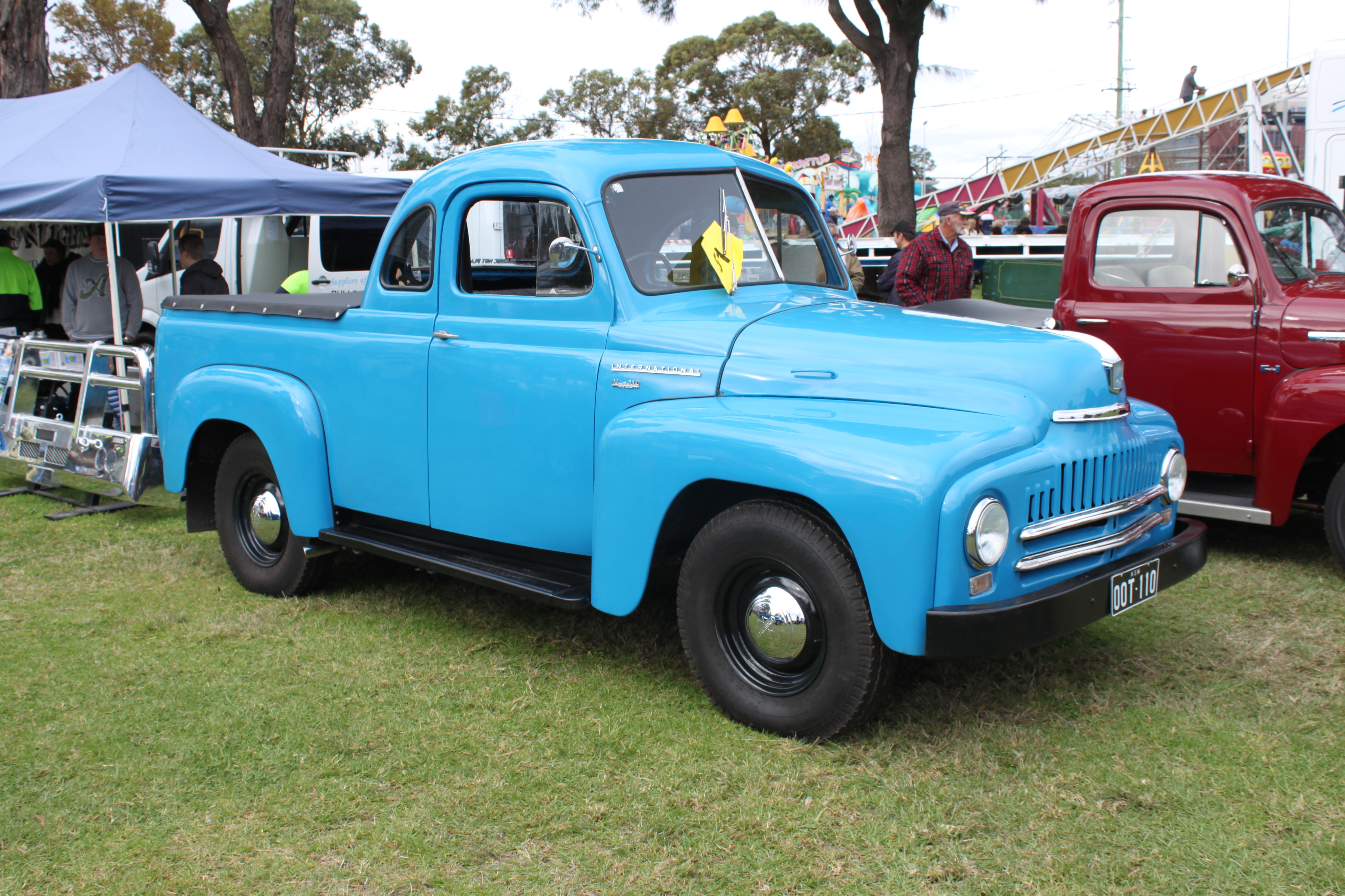 International AL-110